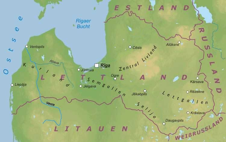 Map of Venta and Abava in the Baltics